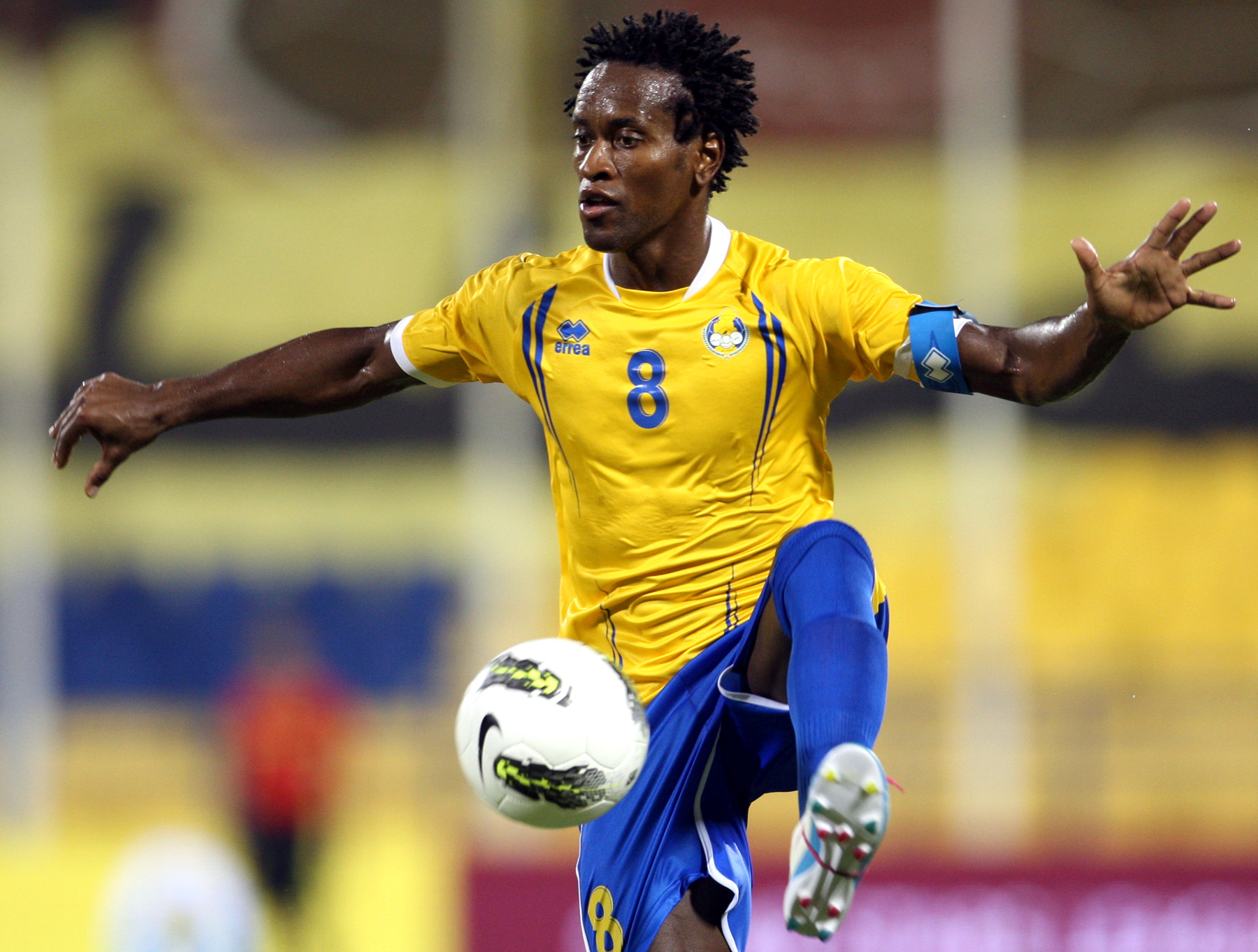 Al Gharafa's Ze Roberto in action during the match against Qatar Sports Club in the Qatar Stars League.